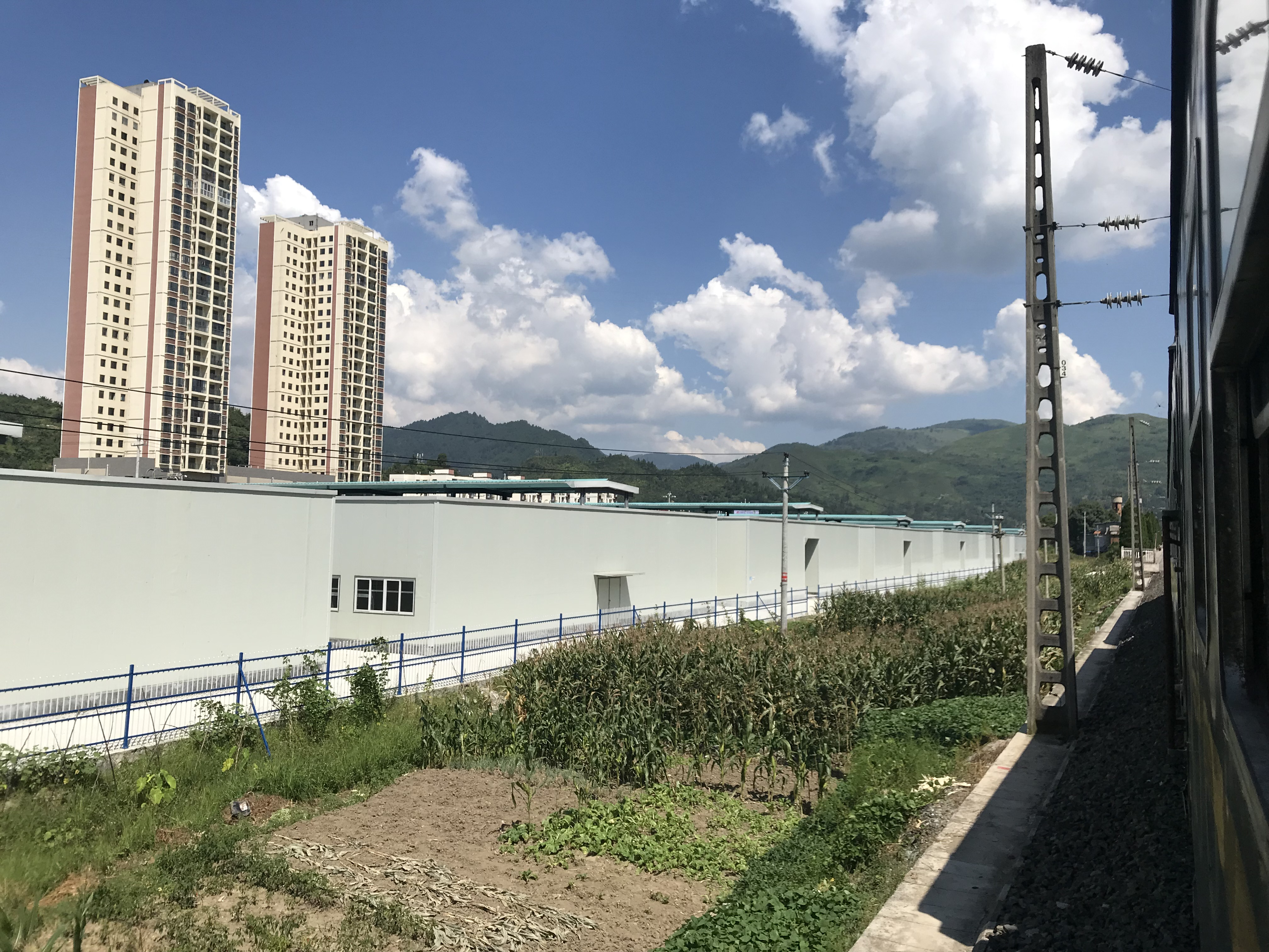 201908 Buildings in Yuantian Village, Chumi, Tongzi